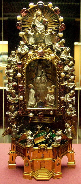 The Holy Thorn Reliquary is an early 15th century reliquary created in Paris for John, Duke of Berry to house a relic of the Crown of Thorns. Since 1898, it has been in the British Museum's collection, having been bequeathed by Ferdinand de Rothschild.